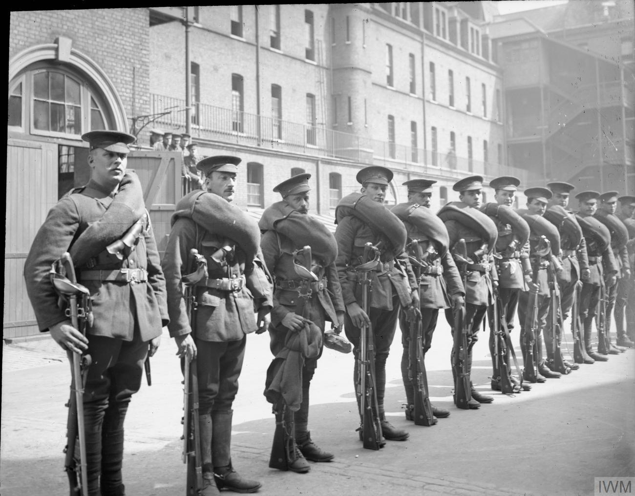 A dismounted cavalry draft of the 1st Life Guards.